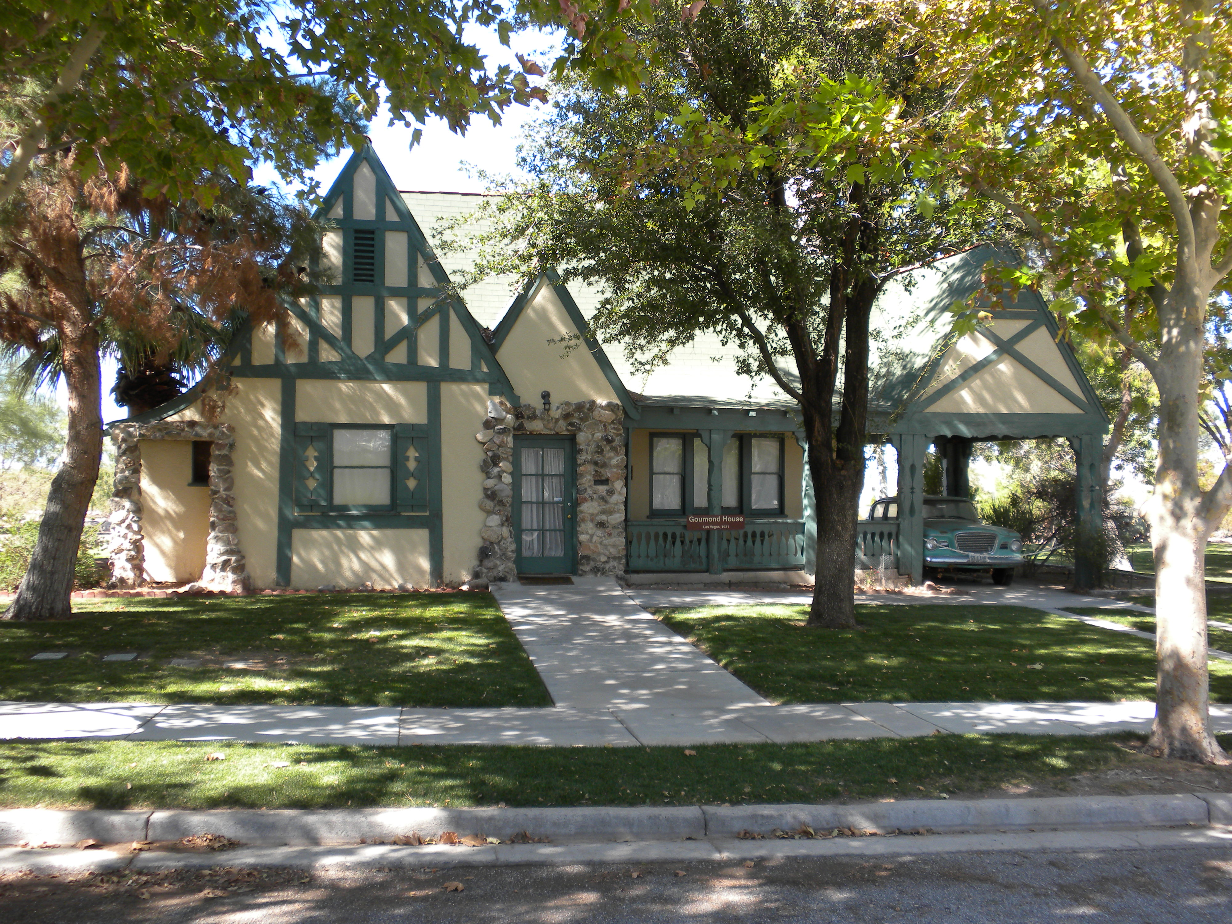 The home of Prosper Goumond, a prominent resident of early Las Vegas, Nevada, now located at the Clark County Heritage Museum.